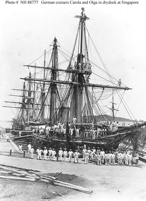 SMS Olga (German Corvette, 1881) and SMS Carola (German Corvette, 1881) In the Albert drydock, Tanjong Tagar, Singapore, during the 1880s. The original print was mounted in an Office of Naval Intelligence register.